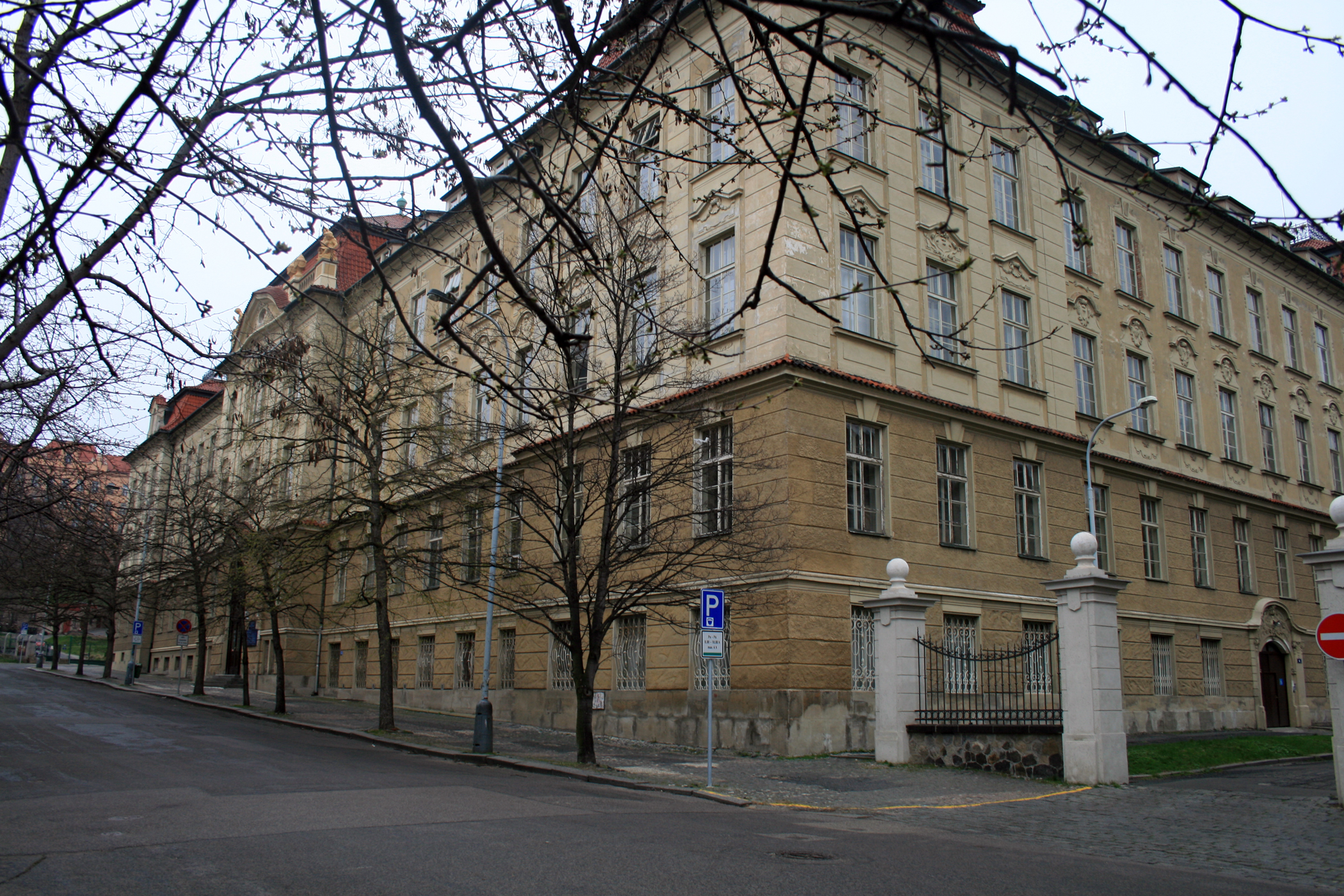 Building of geology, Faculty of Natural Sciences, Charles University, Albertov, Prague